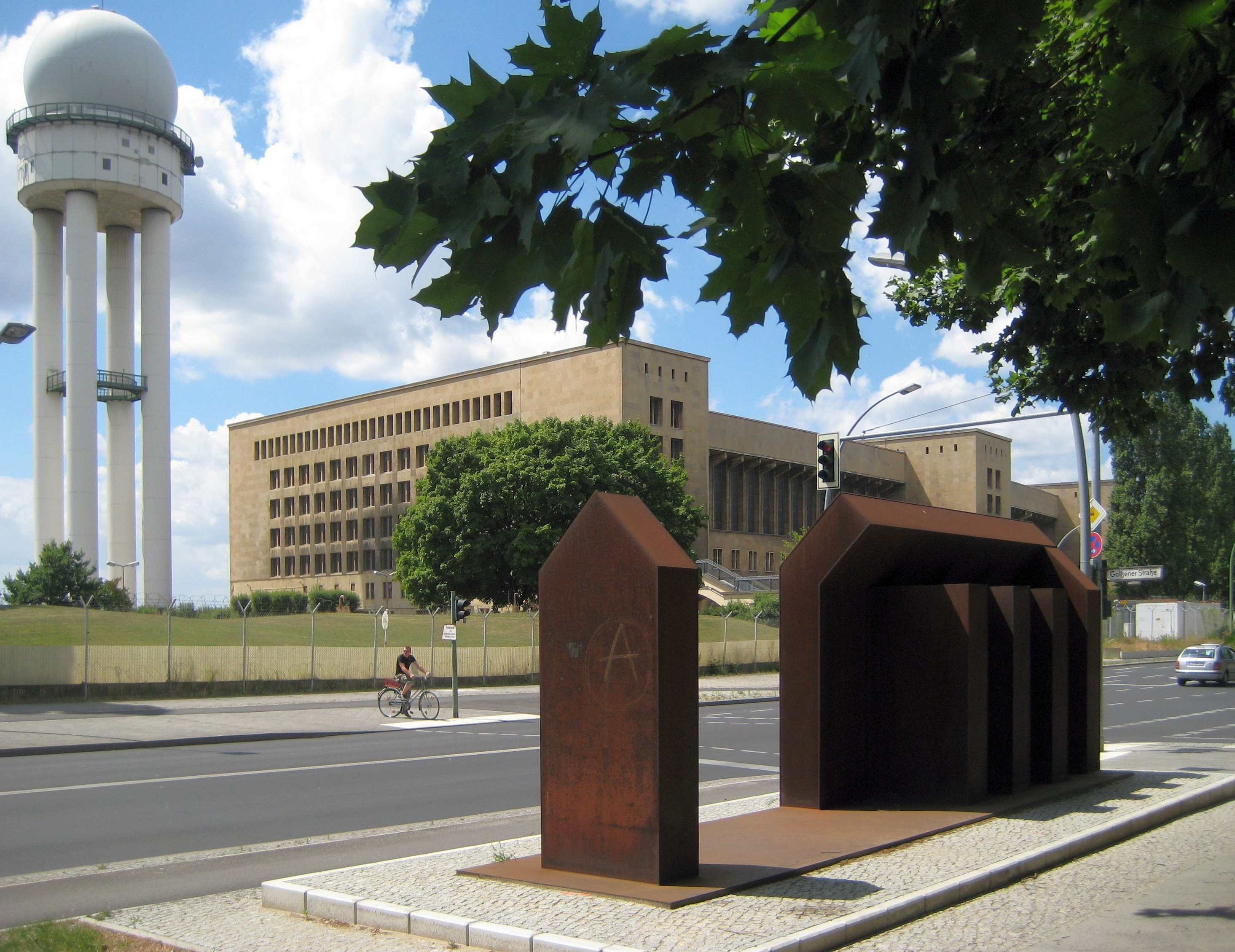 memorial for the victims of concentration camp "KZ Columbia" in Berlin at corner Columbiadamm/Golßener Straße near Tempelhof airport; designed by Georg Seibert (1994)